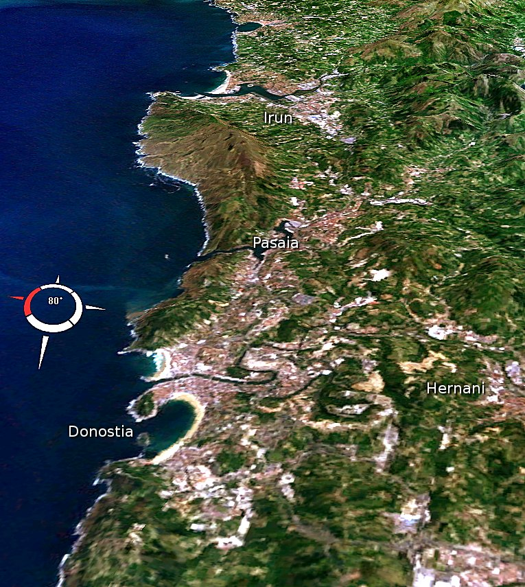 Donostialdeko herri nagusiak/Main villages of the San Sebastian (Basque Country, Spain) metropolitan area